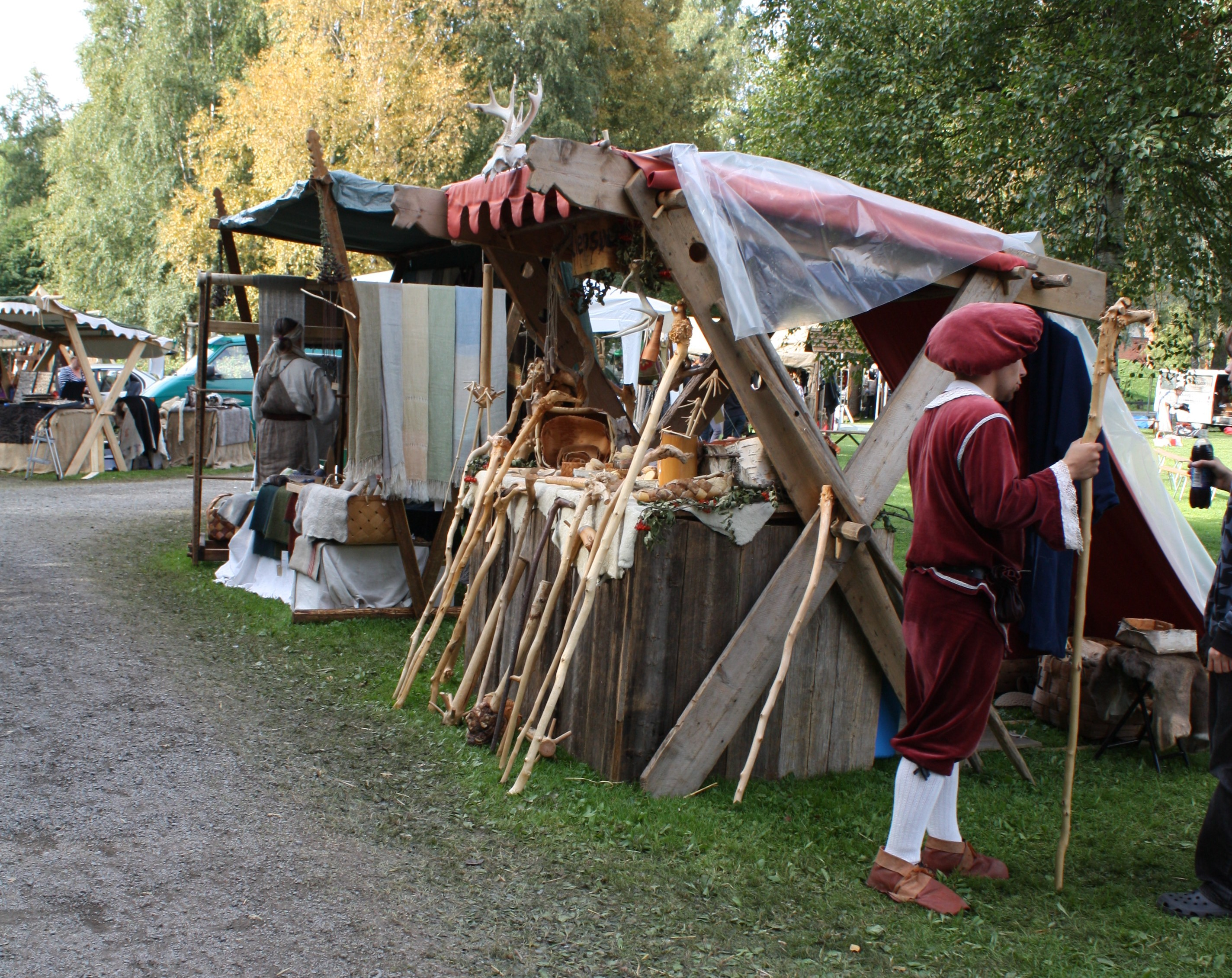 Walking sticks for sale - Hämeenlinna Medieval Market 2009